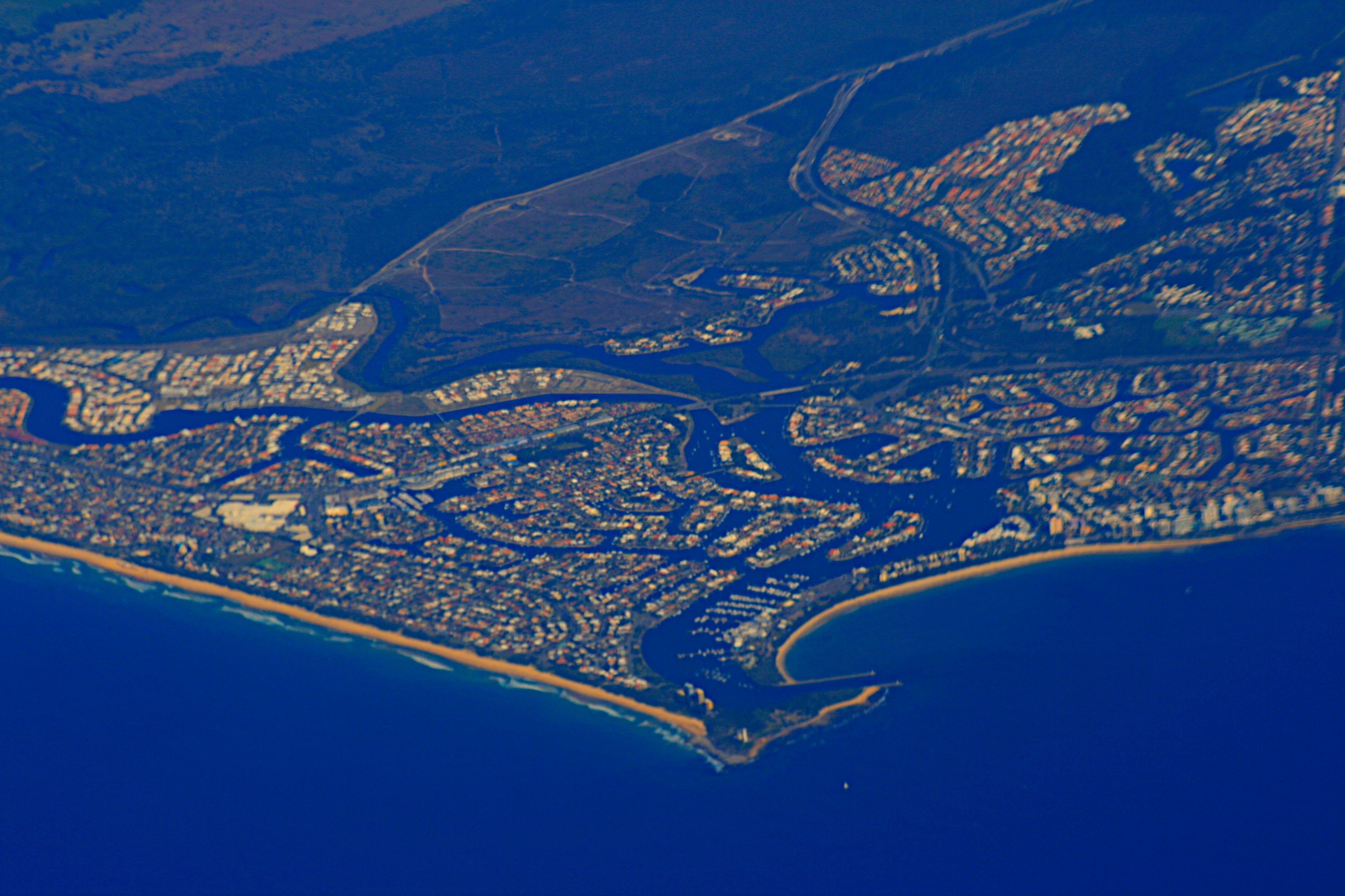 This is Mooloolaba, located on the Sunshine Coast in Queensland. The past five years we've gone here for a holiday.